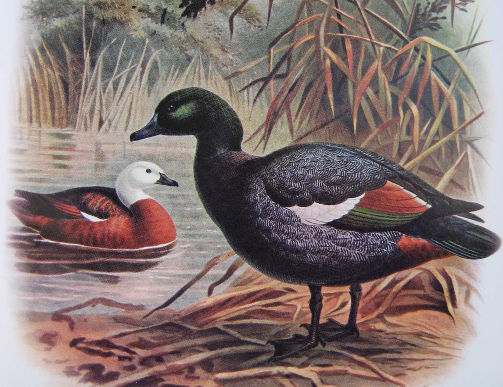 Tadorna variegata, Paradise Shellduck, Pūtangitangi.